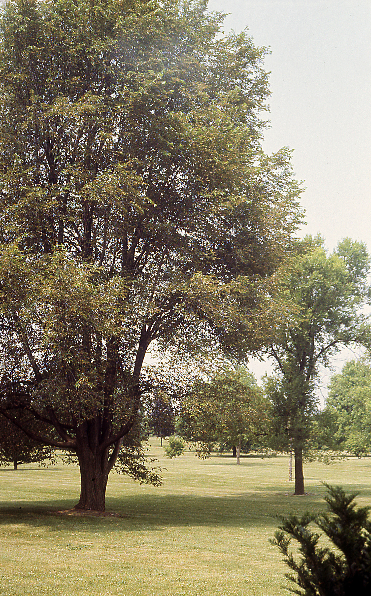 Ulmus x 'FREMONT' (pumila x rubra) 1954 (left) and Ulmus pumila 'DROPMORE' 1954 - The University of Wisconsin–Madison Arboretum 1987.06.18 (photo: Mihailo Grbić)